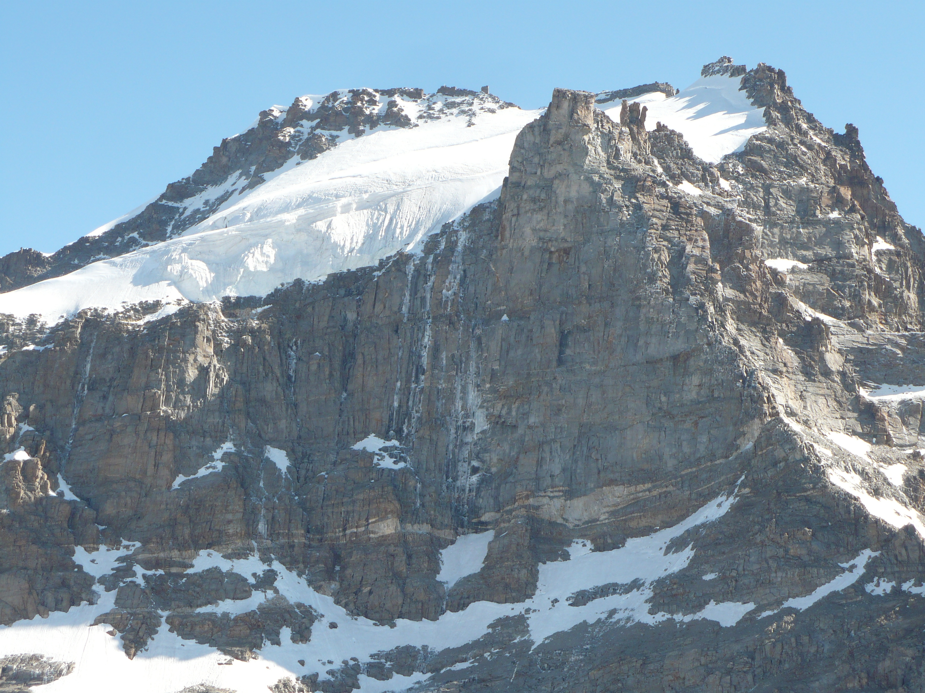 Gran Paradiso summit, Roc and Becca di Moncorvè from sud; Gran Paradiso massif; Graian Alps; Aosta Valley; Italy